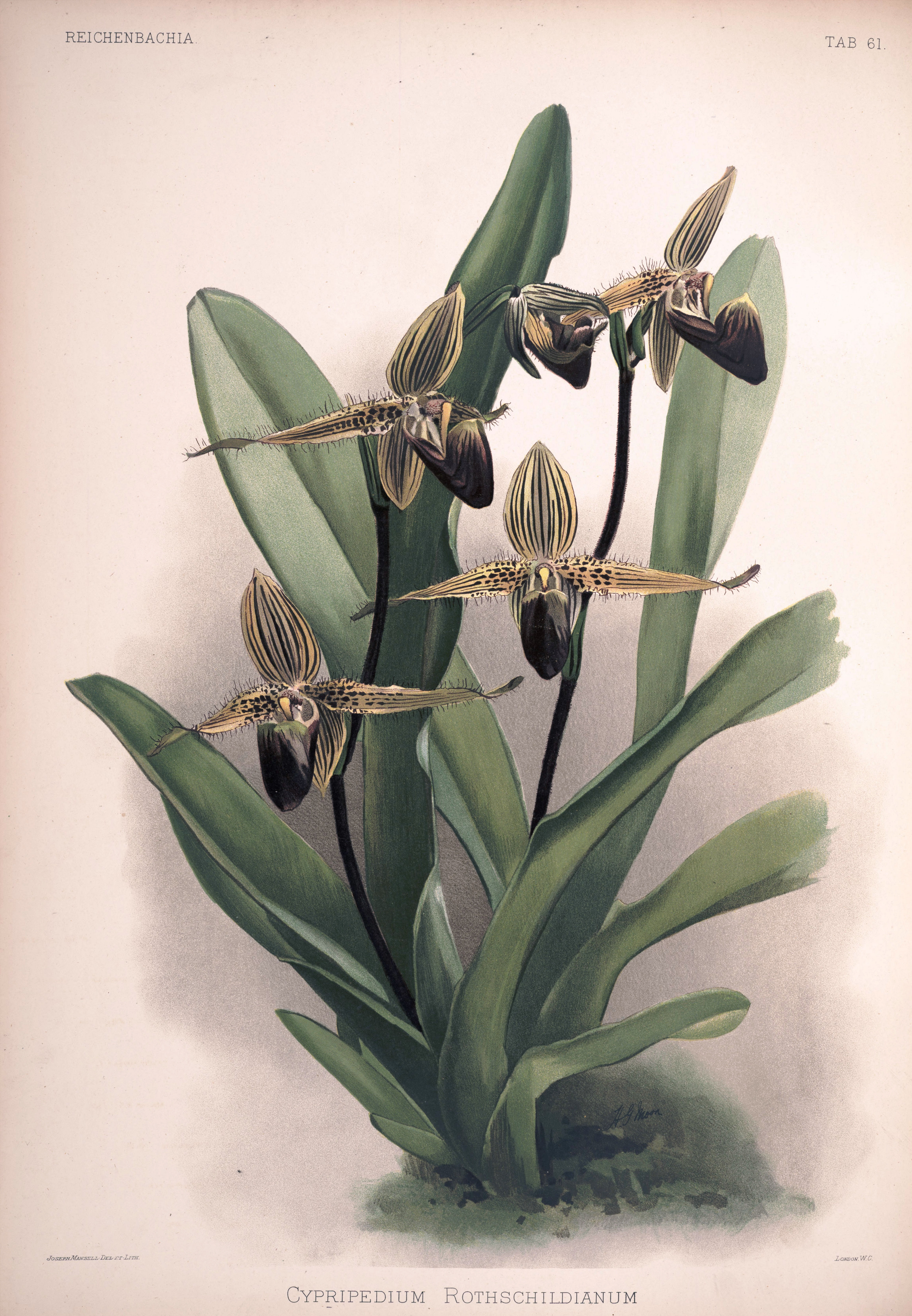 Paphiopedilum rothschildianum as syn. Cypripedium rothschildianum